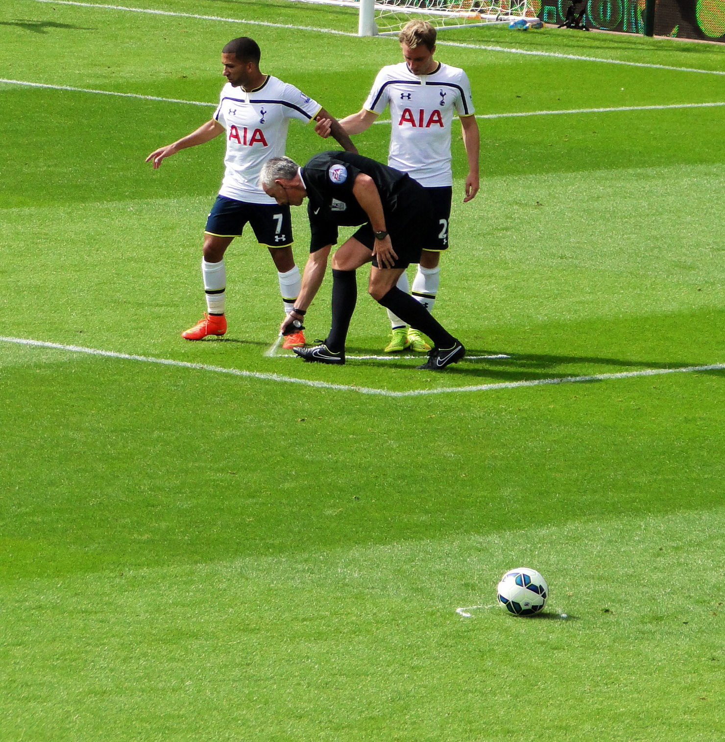 Referee Chris Foy uses a vanishing spray on the opening day of the 2014-15 season in a game at the Boleyn Ground featuring West Ham United and Tottenham Hotspur. This was the first day on which the spray was used in the Premier League.